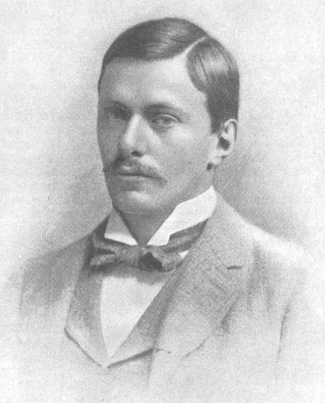 Portrait of the English author E F Benson, published to accompany a short story by Benson in the August 1902 issue of Leslie's Popular Monthly Magazine, vol 54 no 4, p 336